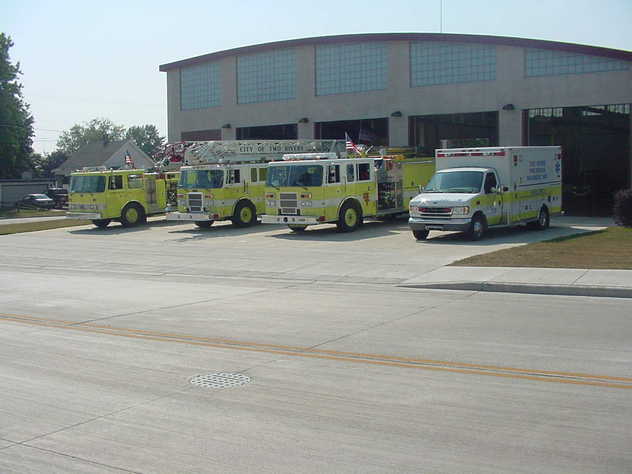 The Two Rivers, Wisconsin Fire Department